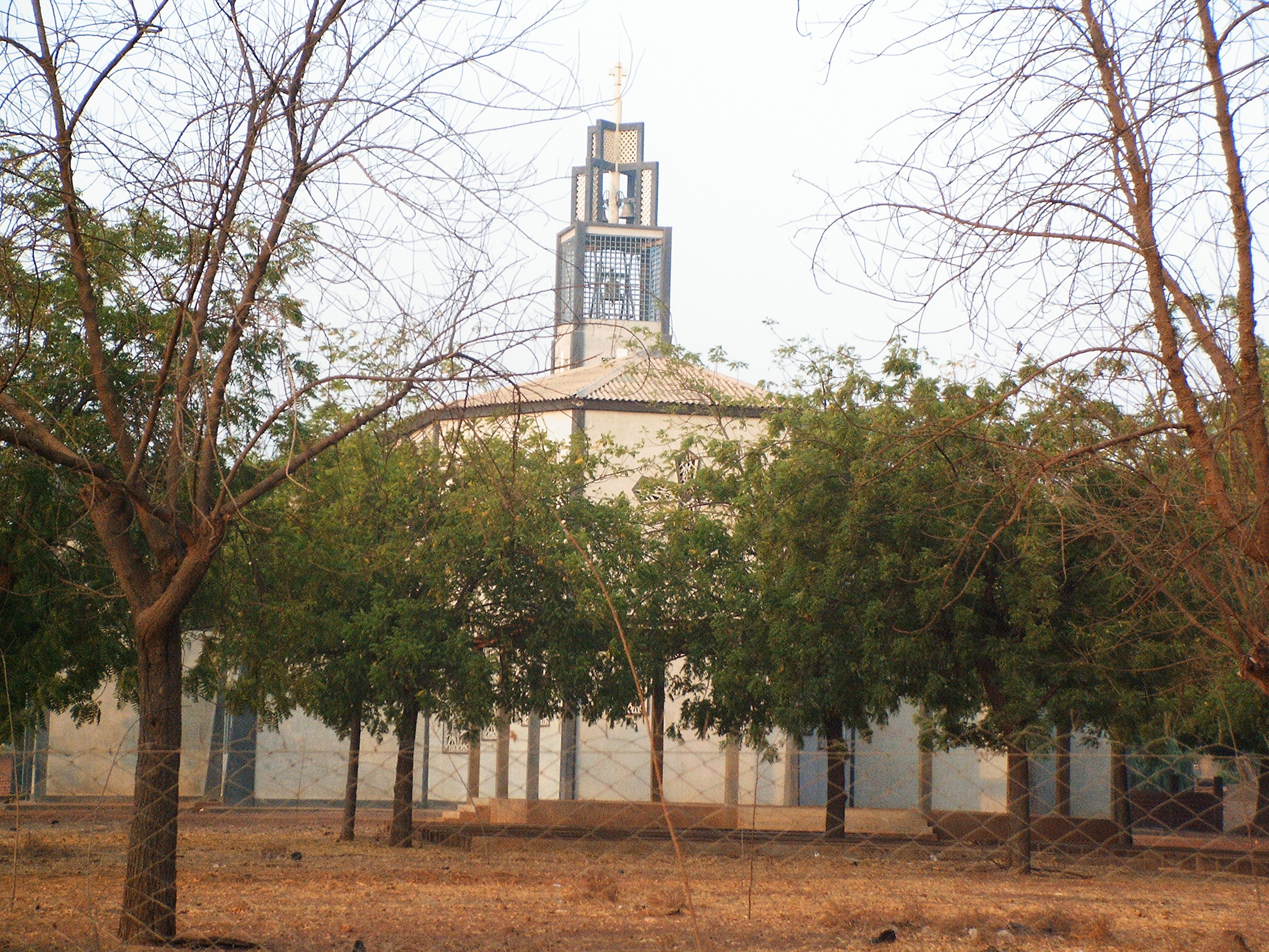 Catholic church in Nouna, Burkina Faso picture taken by author